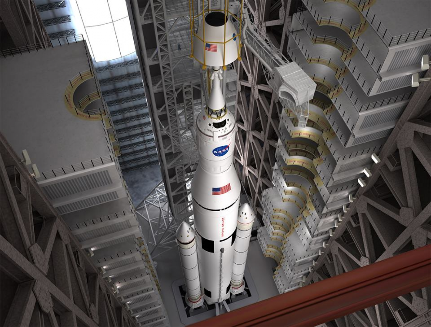 Artist concept of the SLS and Orion spacecraft being stacked in the Vehicle Assembly Building at NASA's Kennedy Space Center in Florida. Modifications of the Vehicle Assembly Building are underway to support the SLS and Orion spacecraft, which also will result in the ability to process multiple types of launch vehicles.